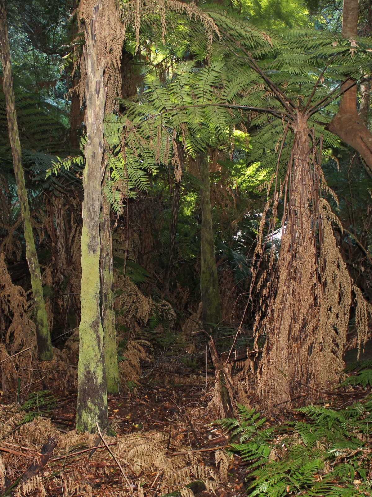 Maxwells Creek forest walk. Many Prickly Tree Ferns (Cyathea leichhardtiana). Far south east NSW, 3 km north of the border with the state of Victoria